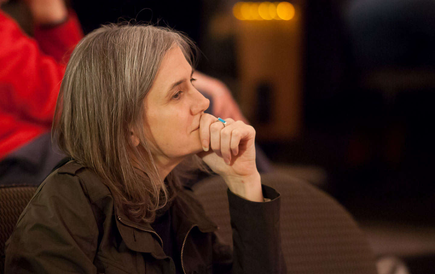 Profile of Amy Goodman